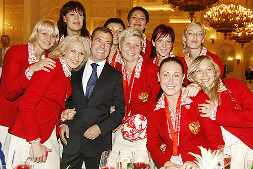 GRAND KREMLIN PALACE, MOSCOW. Dmitry Medvedev with the Russian women’s handball team, winners of a silver medal at the Beijing Olympics.